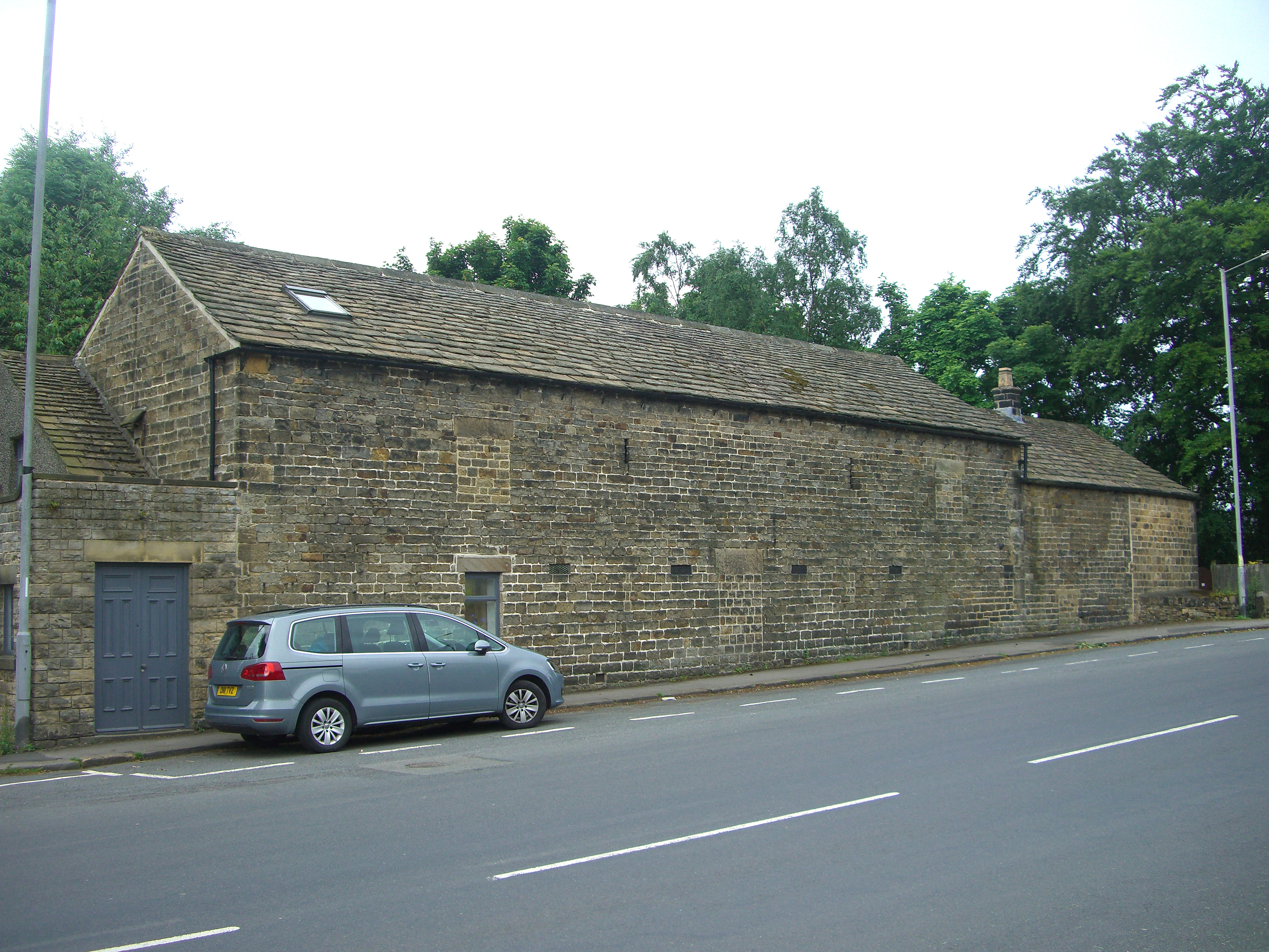 The Guildhall on Fulwood Road in Sheffield, England. This building is Grade II listed and dates from 1824, it was formerly a barn of Goole Green Farm and has since been converted to private accomodation. This picture shows the rear of the house facing Fulwood Road.